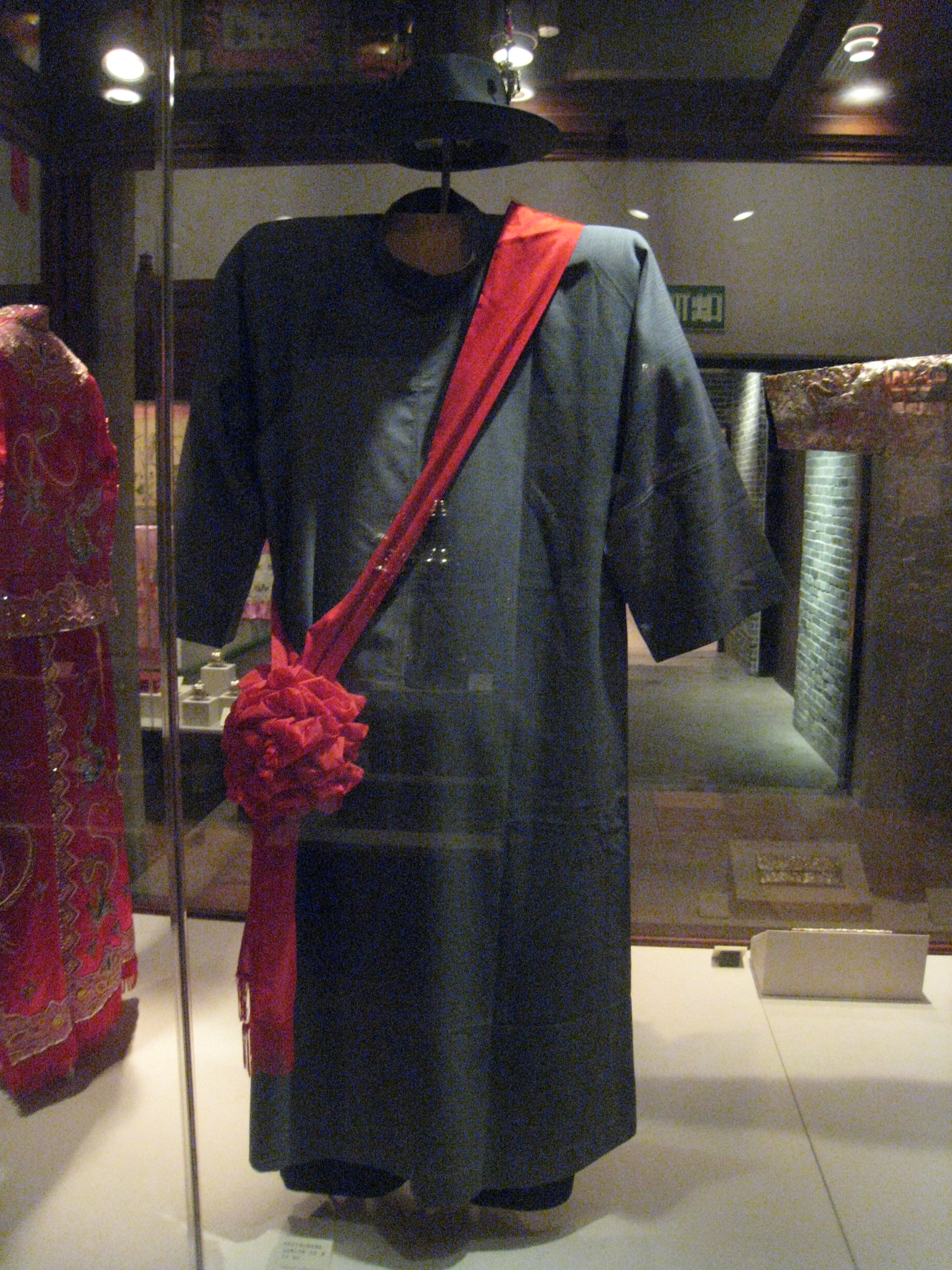 Chinese marriage clothes for a male